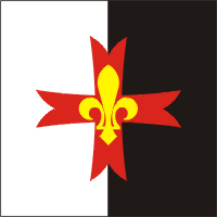 The FSE Oriflame